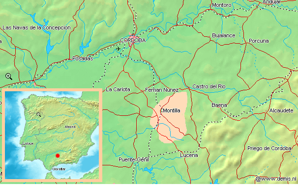 Map by Ulrich Prokop (Scops) after a basic map from DEMIS